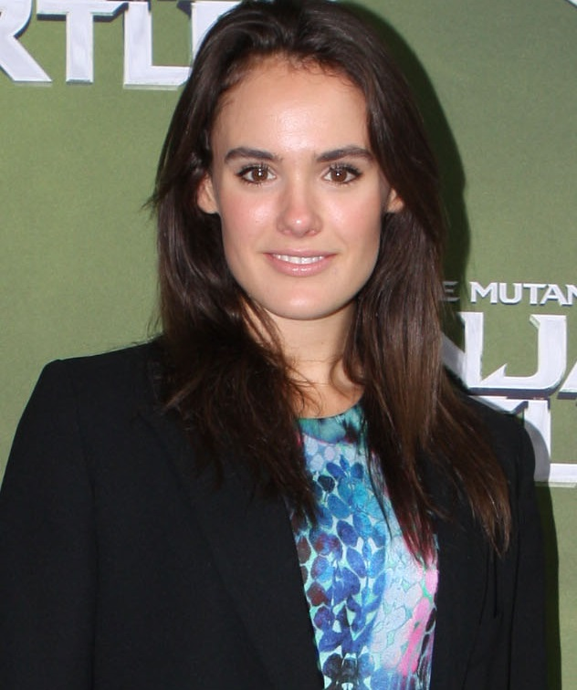 Teenage Mutant Ninja Turtles Special Event Screening - Megan Fox, Will Arnett